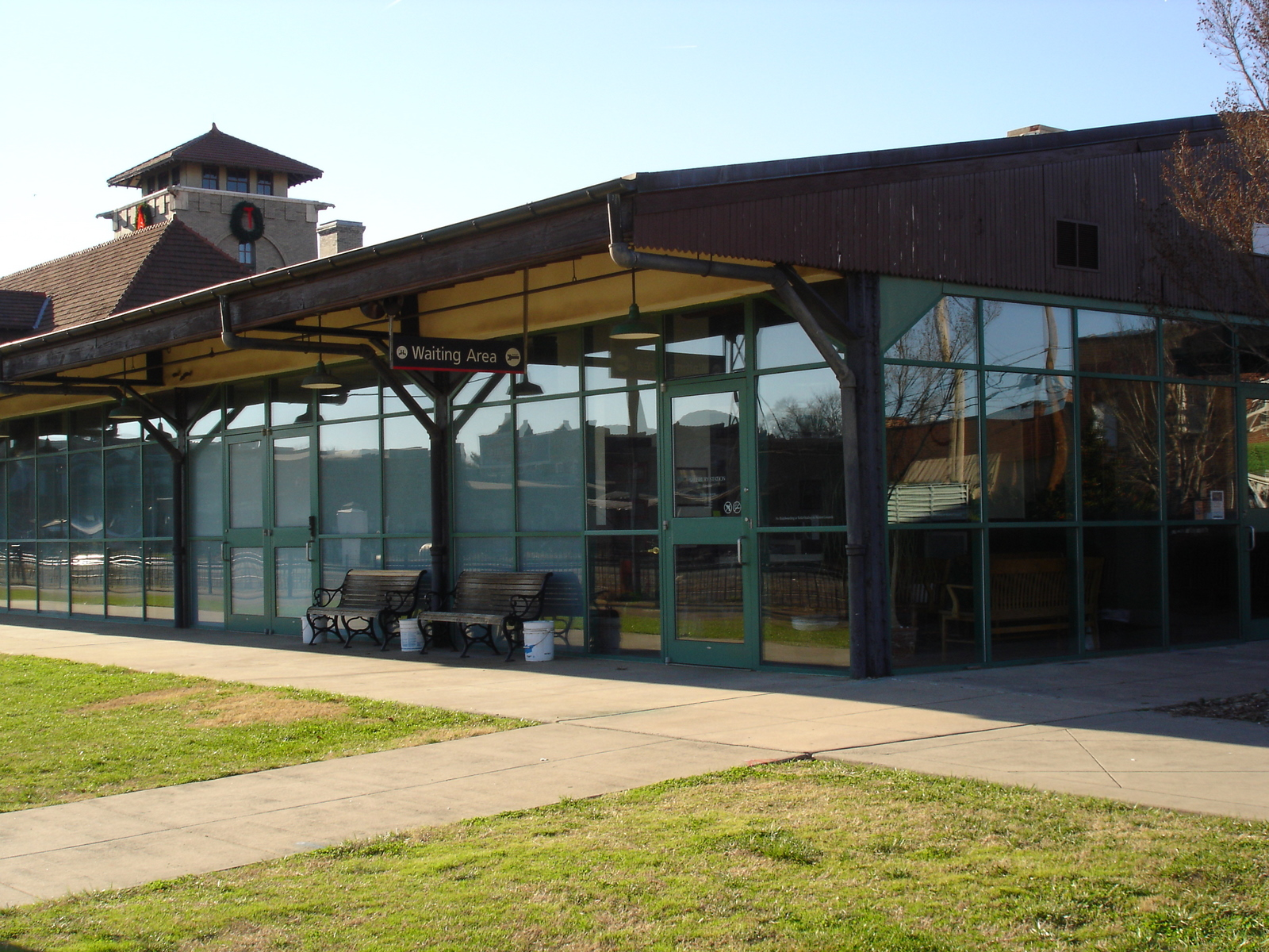 The train station at Salisbury, North Carolina. This part of the station is the current waiting area for Amtrak services.